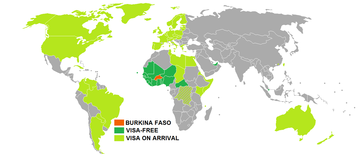 Visa policy of Burkina Faso Burkina Faso Visa-free Visa on arrival